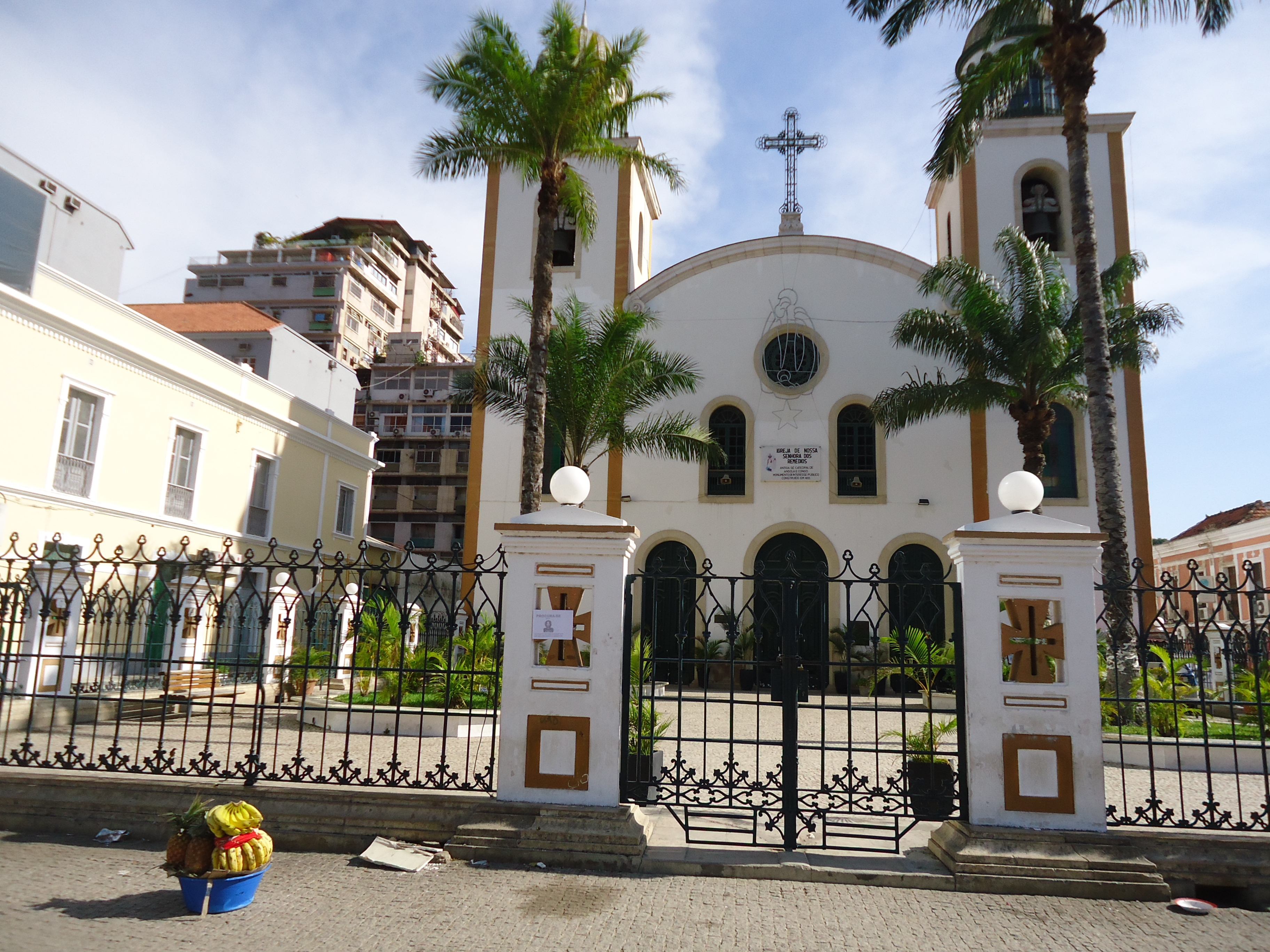 Streets and buildings of Luanda. Photo by Fabio Vanin, Luanda, 2013.